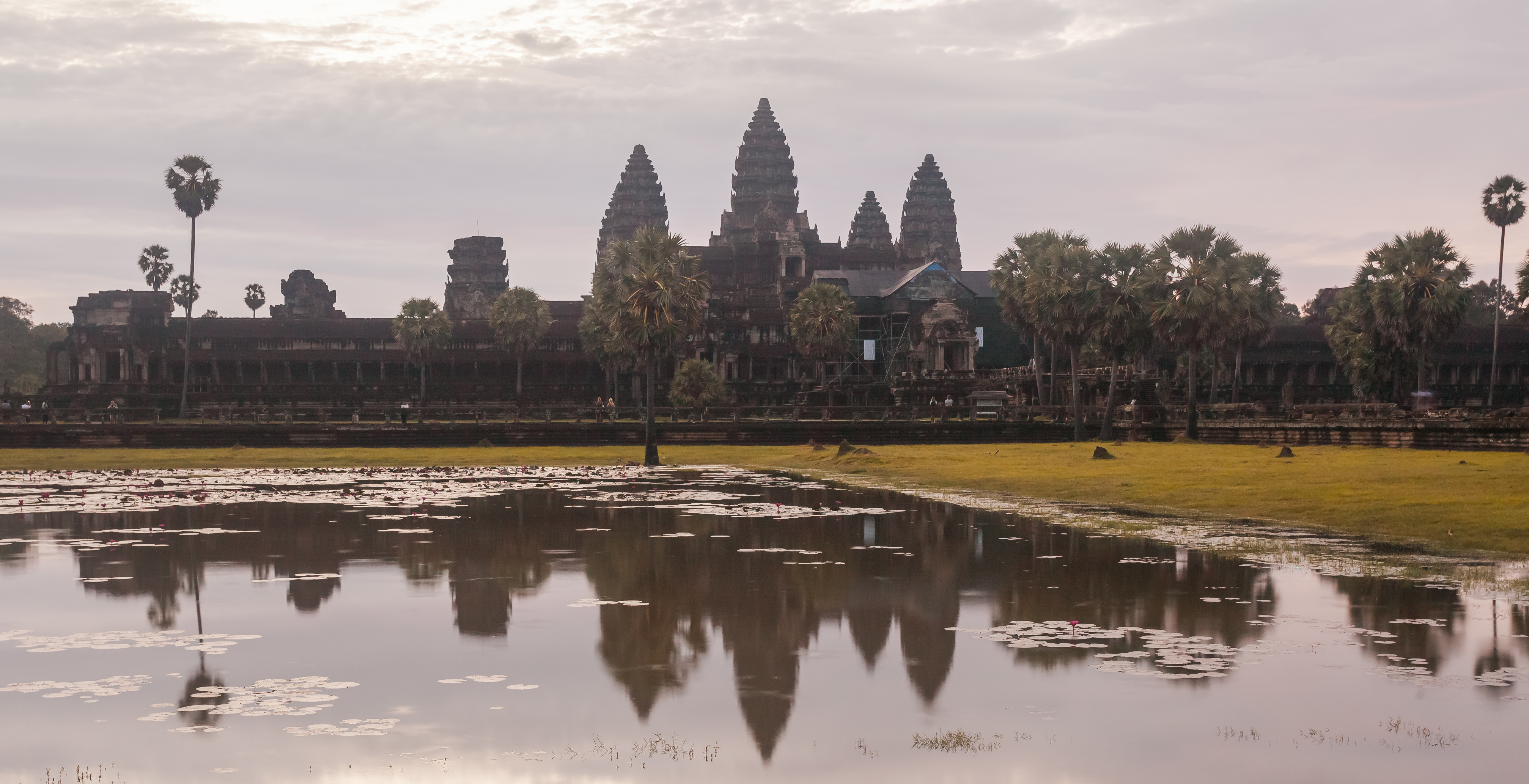 Angkor Wat, Cambodia